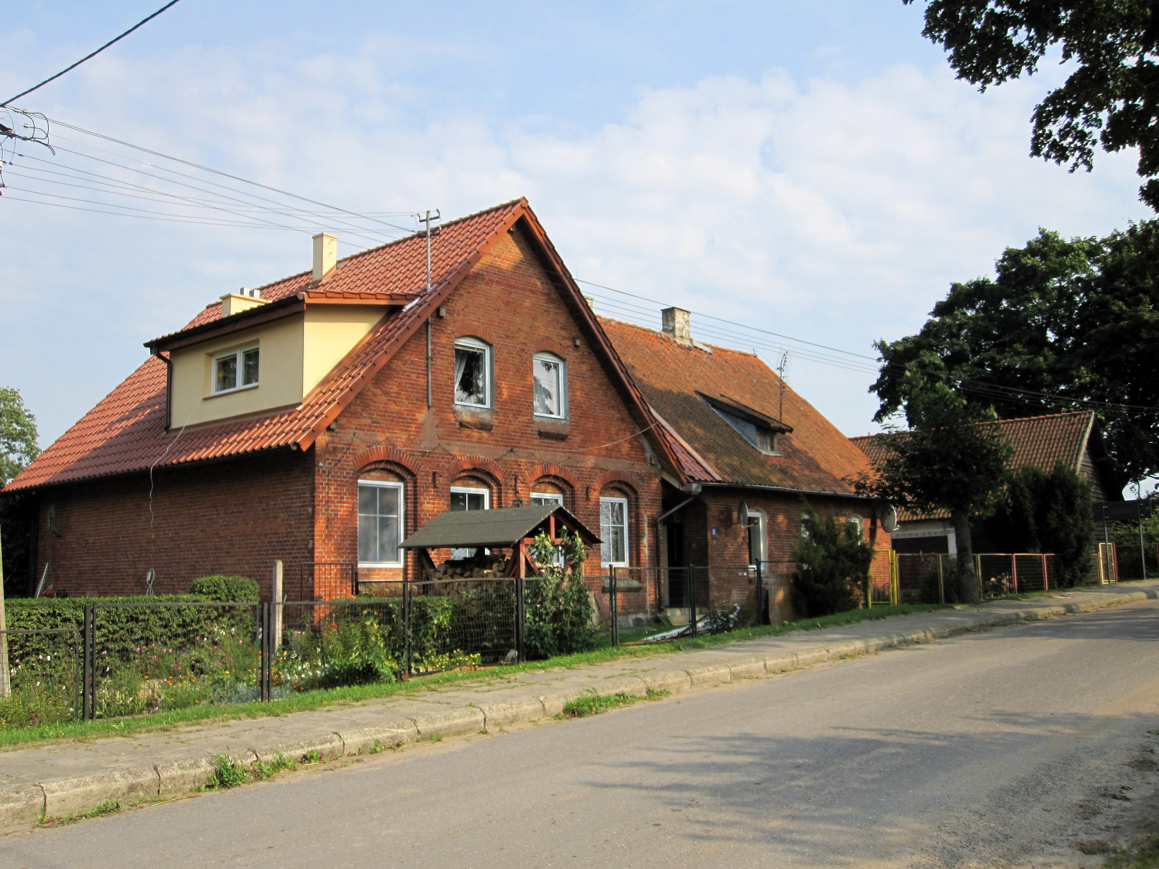 Building in Rozogi, powiat mrągowski